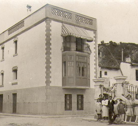 Indianos style house in Lloret de Mar, destroyed in 1976